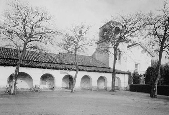 Mission San Juan Bautista (1934). Second Street, San Juan Bautista Plaza, San Juan Bautista (San Benito County, California) - (cropped) Historic American Buildings Survey—HABS image.